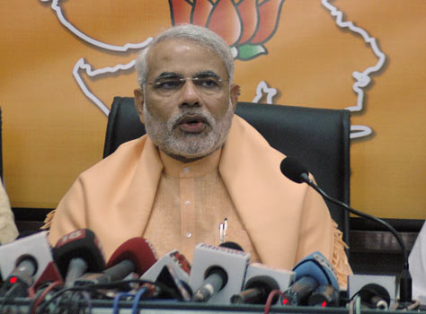 Narendra Modi in Press Conference